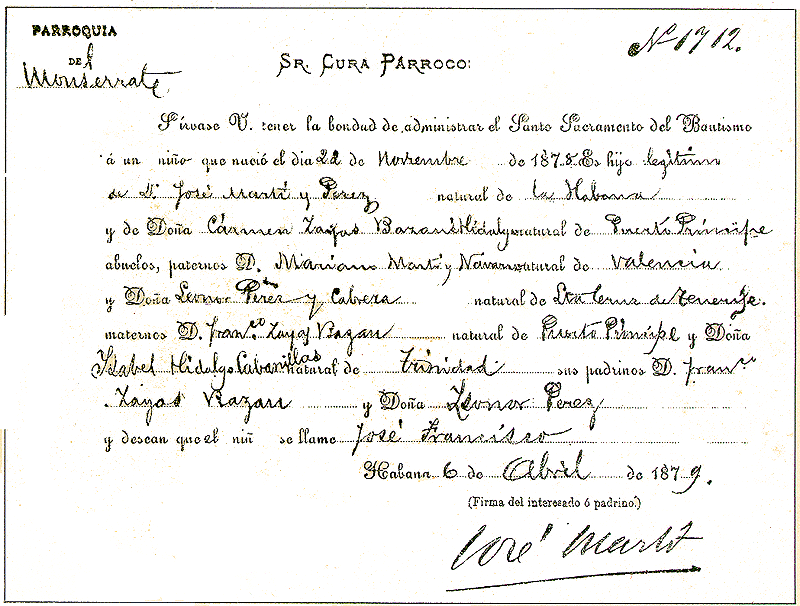 Jose Francisco Birthday Certificate